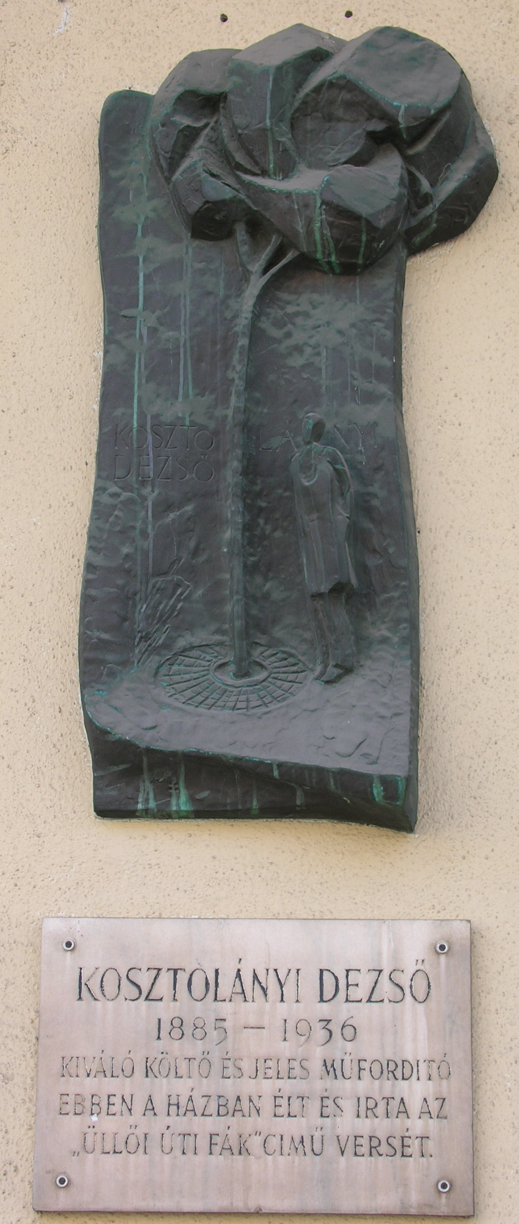 Commemorative plaque of Dezső Kosztolányi in Budapest District IX, Üllői Street No 21